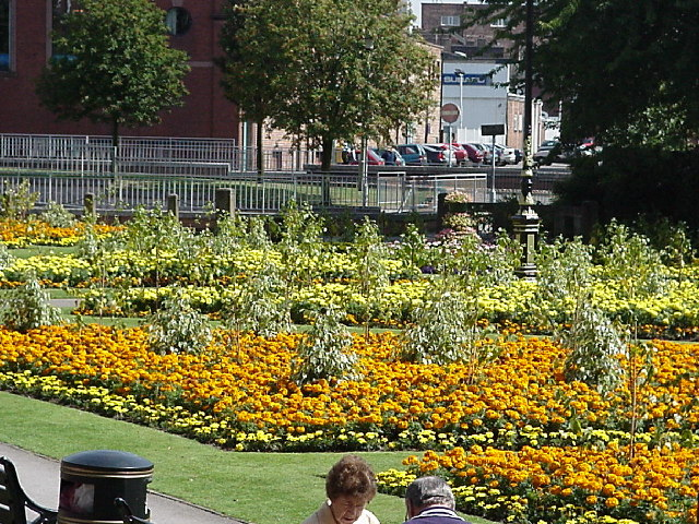 Floral Gardens, Newcastle-under-Lyme